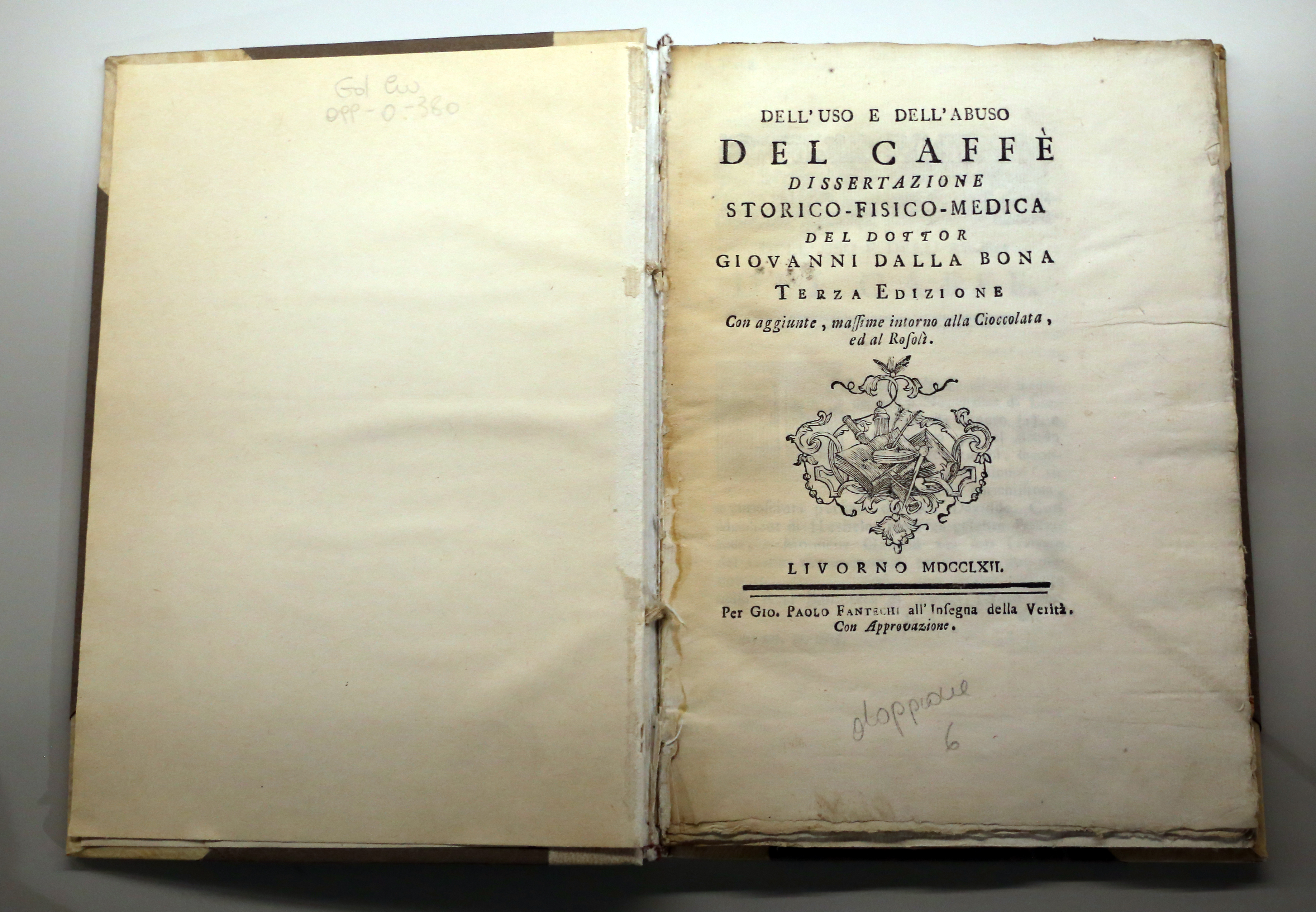 Collections of the Museo della città (Livorno)